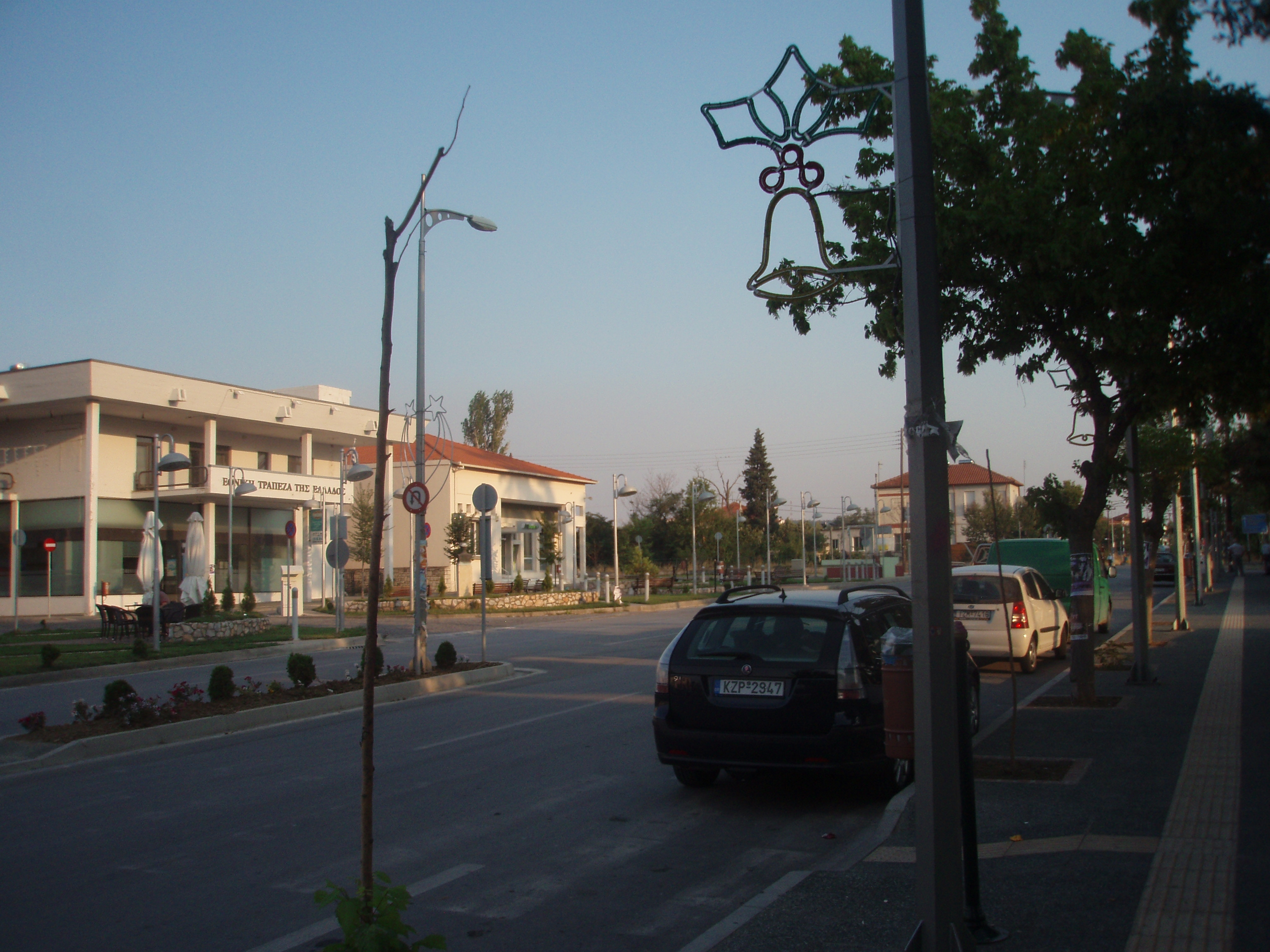 Main road in Amyndeo (Amyntaio), Amyndeo municipality, Florina prefecture, Greece.